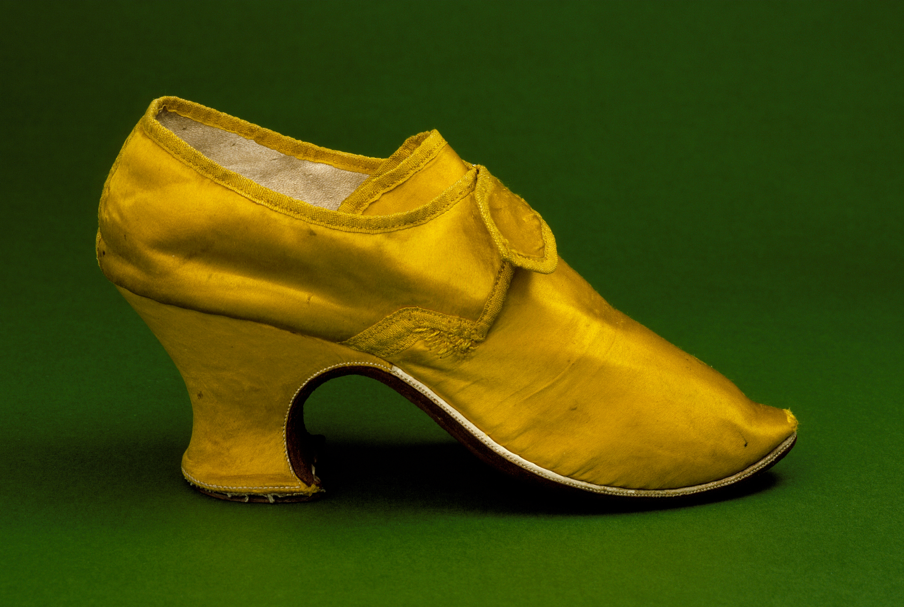 Woman's yellow silk shoe with "louis heel", England, circa 1760-1765.